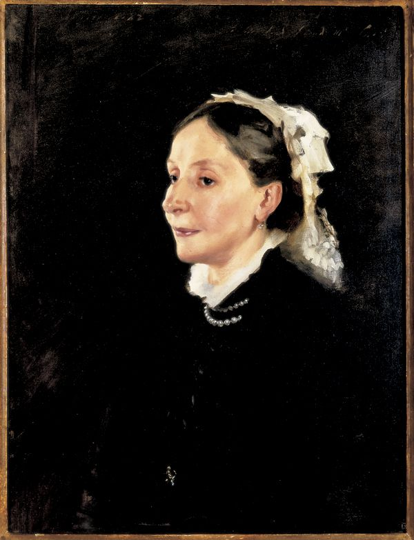 Portrait of Mrs. Daniel Sargent Curtis John Singer Sargent -- American painter 1882 Helen Foresman Spencer Museum of Art, University of Kansas, Lawrence Oil on canvas 71.1 x 53.3 cm (28 x 21 in.) Samuel H. Kress Study Collection 1960.59 Jpeg: Spencer Museum of Art